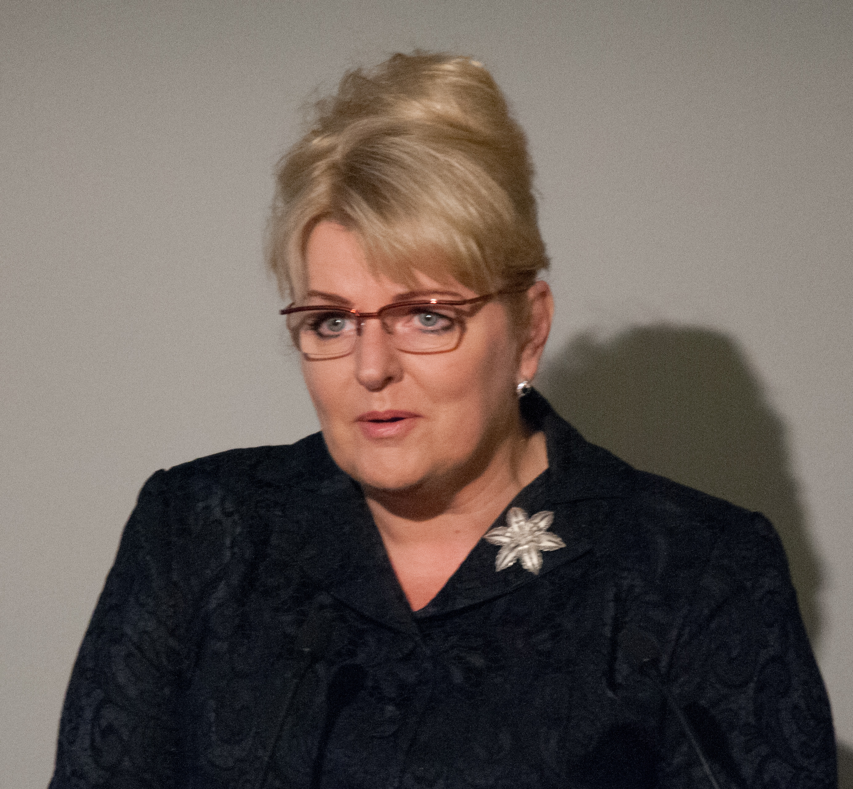 25. Baltic Sea Parliamentary Conference vom 28.-30. August 2016 in Riga. THIRD SESSION: Algimanta Pabedinskiene, Minister of Social Security and Labour, Lithuania